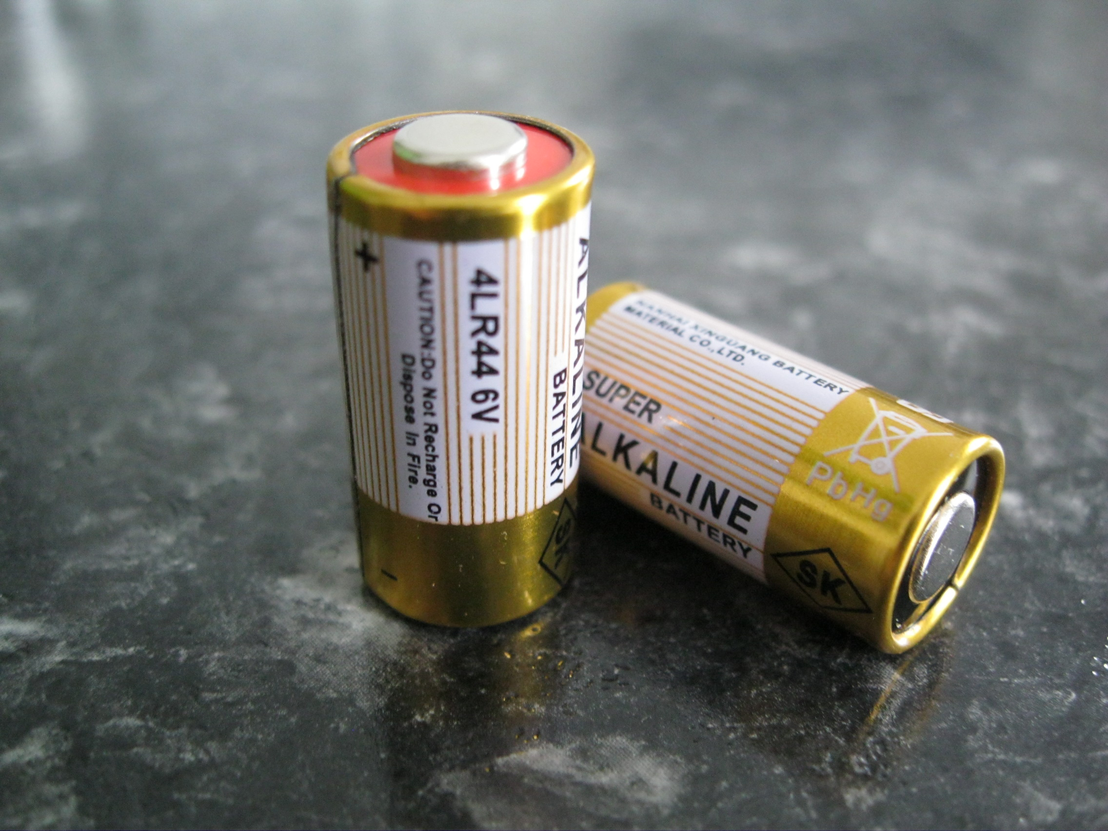 Two 4LR44 Alkaline batteries of 6 volts